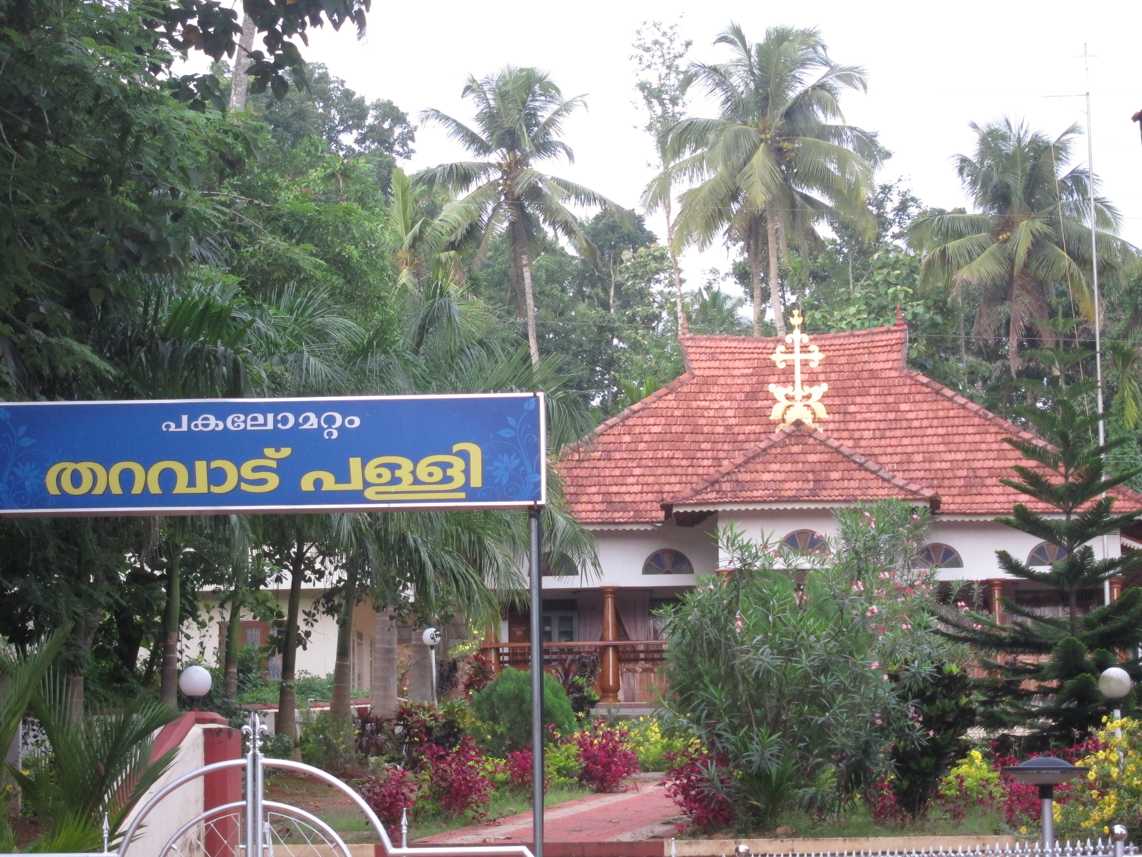 Pakalomattam Forane Church Archdeacons of All India Pakalomattam, Kuravilangad-Ettumanoor Road (M.C Road) Kottayam District 2 k.m away from Kuruvilangad